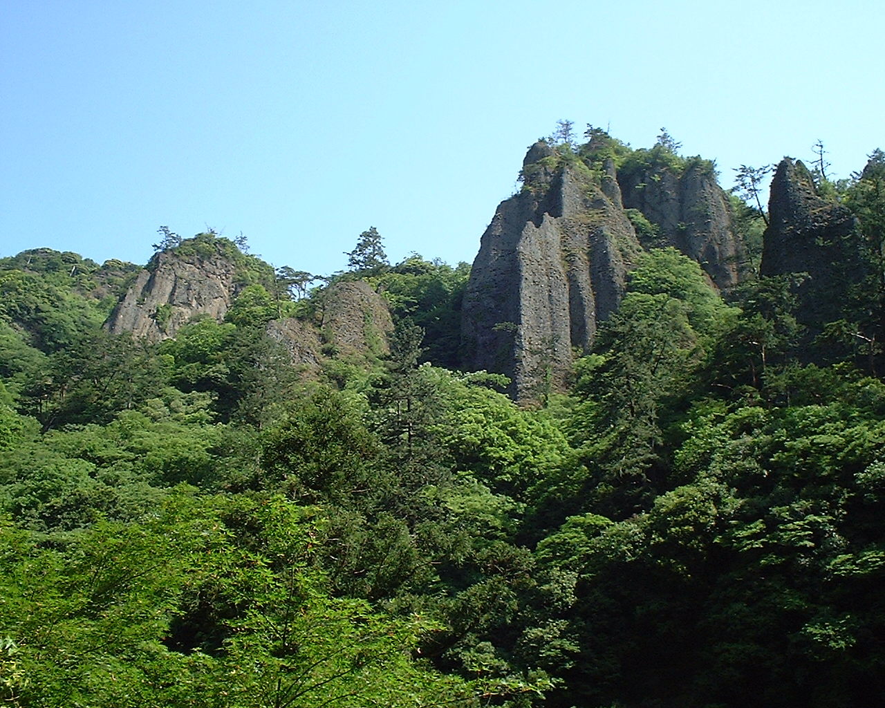 Photo of Tachikue gorge.